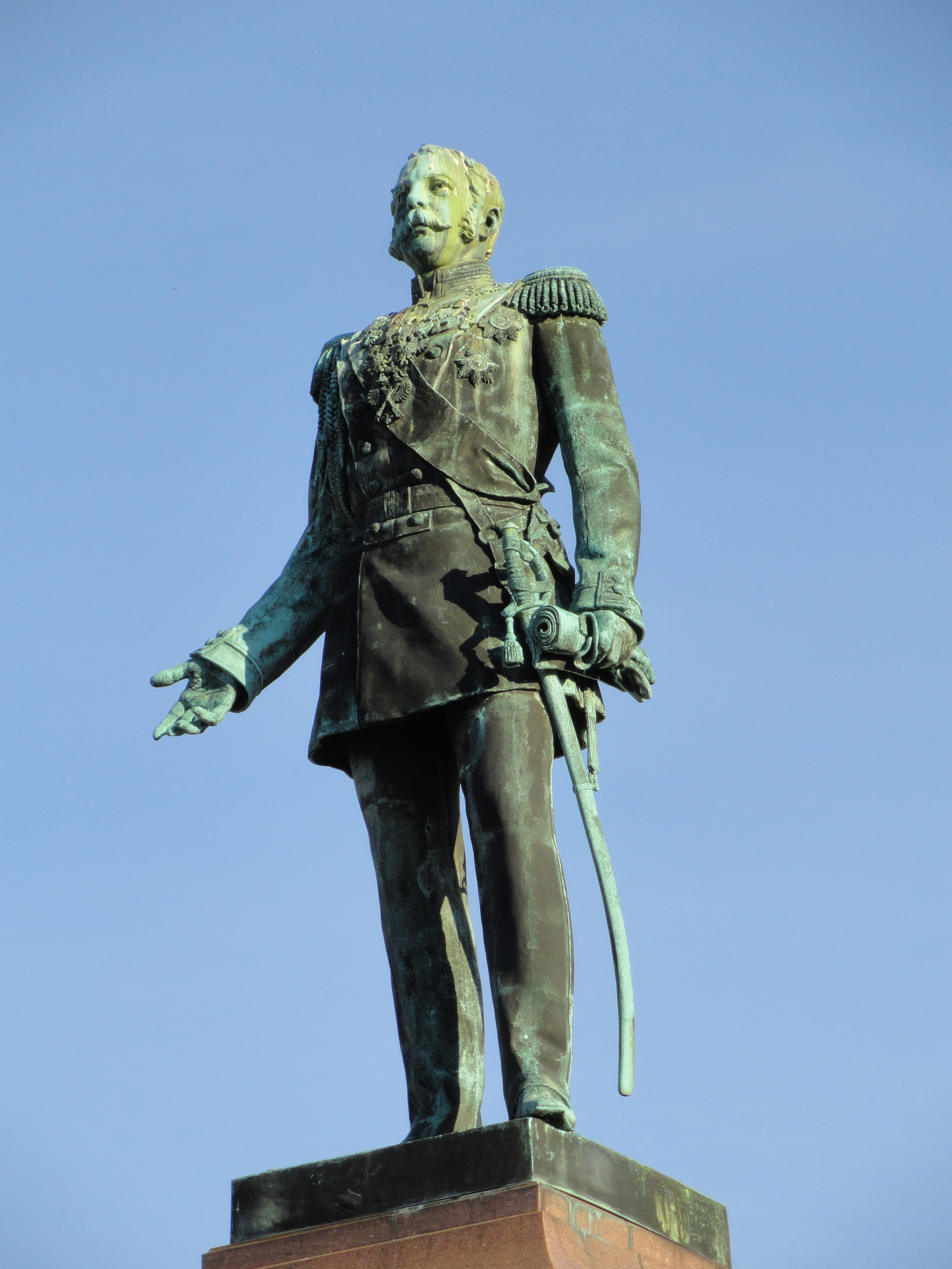 Statue of Alexander II, Helsinki, Finland. This artwork is in the public domain because the artist died more than 70 years ago.